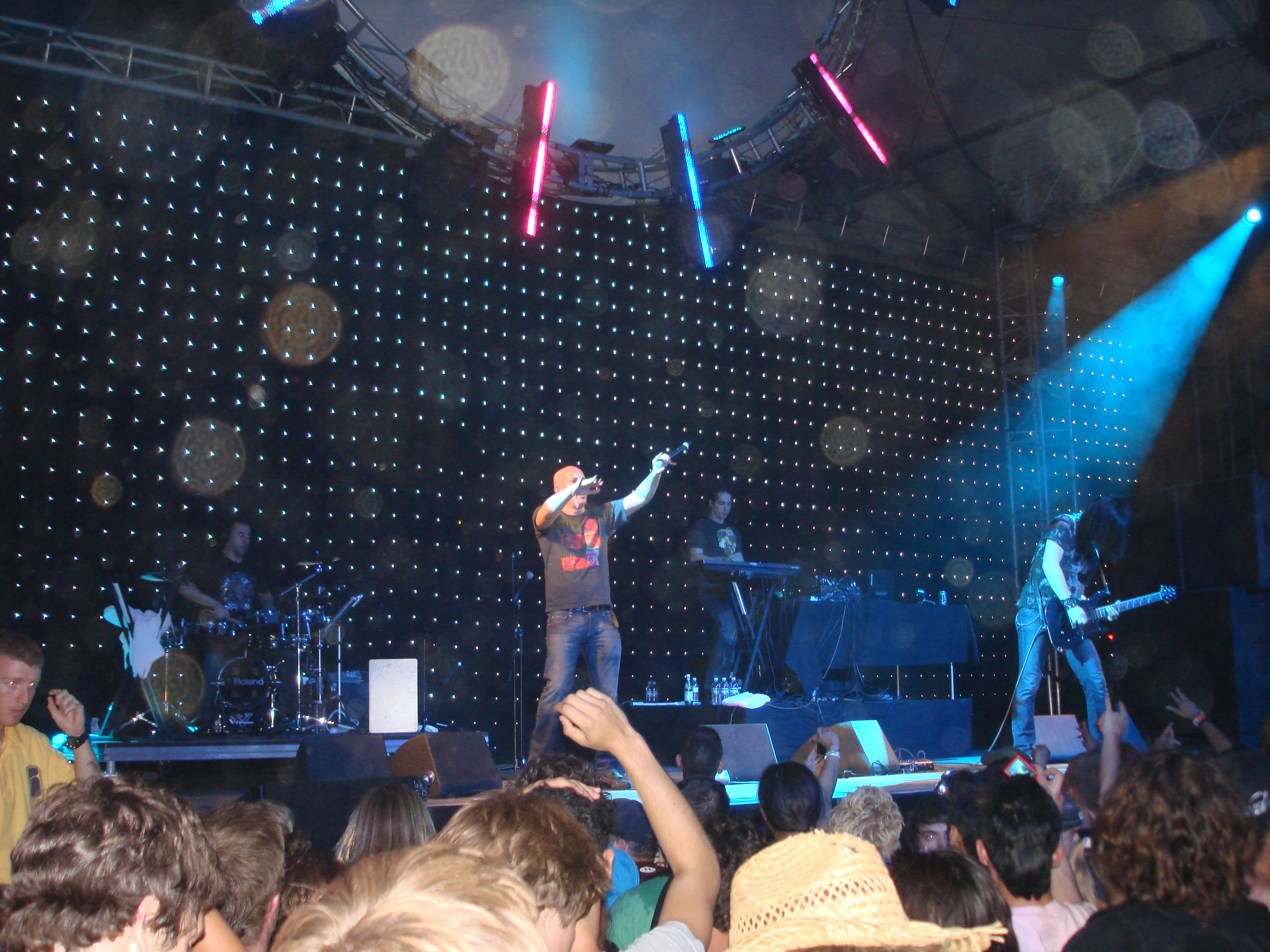 Musicians at Coachella 2007